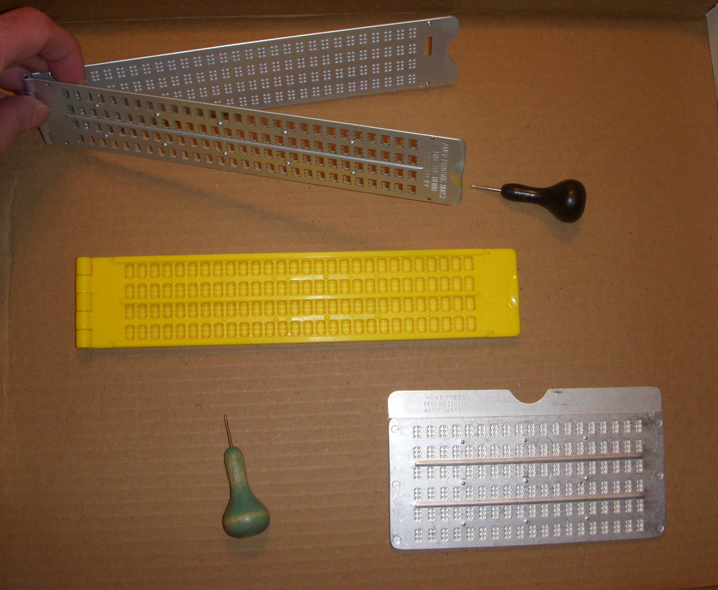 slate and stylus, 3 Slates and 2 Styli